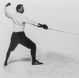 Italo Santell, fencer at the 1900 Olympic Games photography, adapted reproduction, no restrictions on use